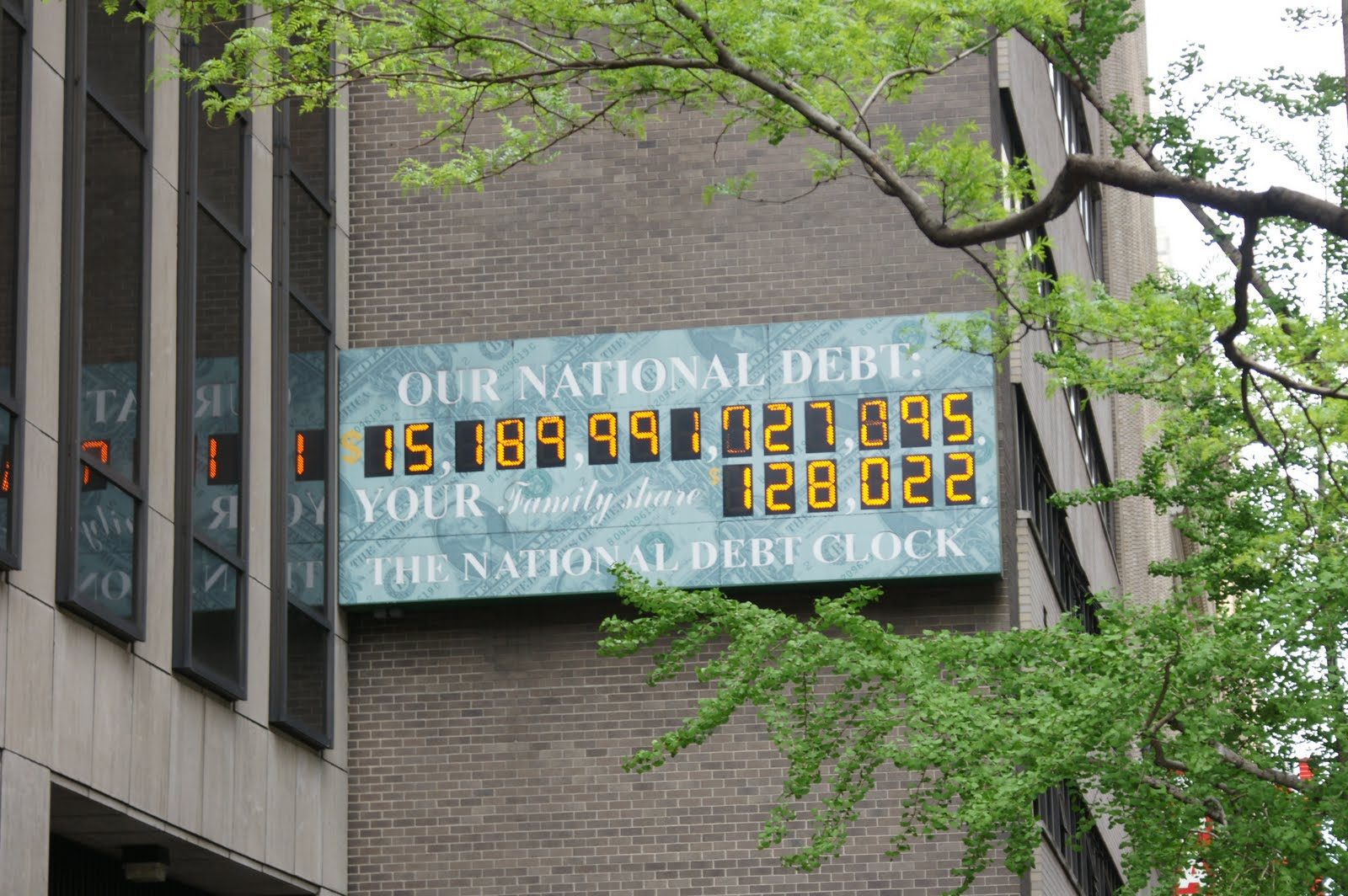 United States national debt counter in NY, taken in 20th of April 2012